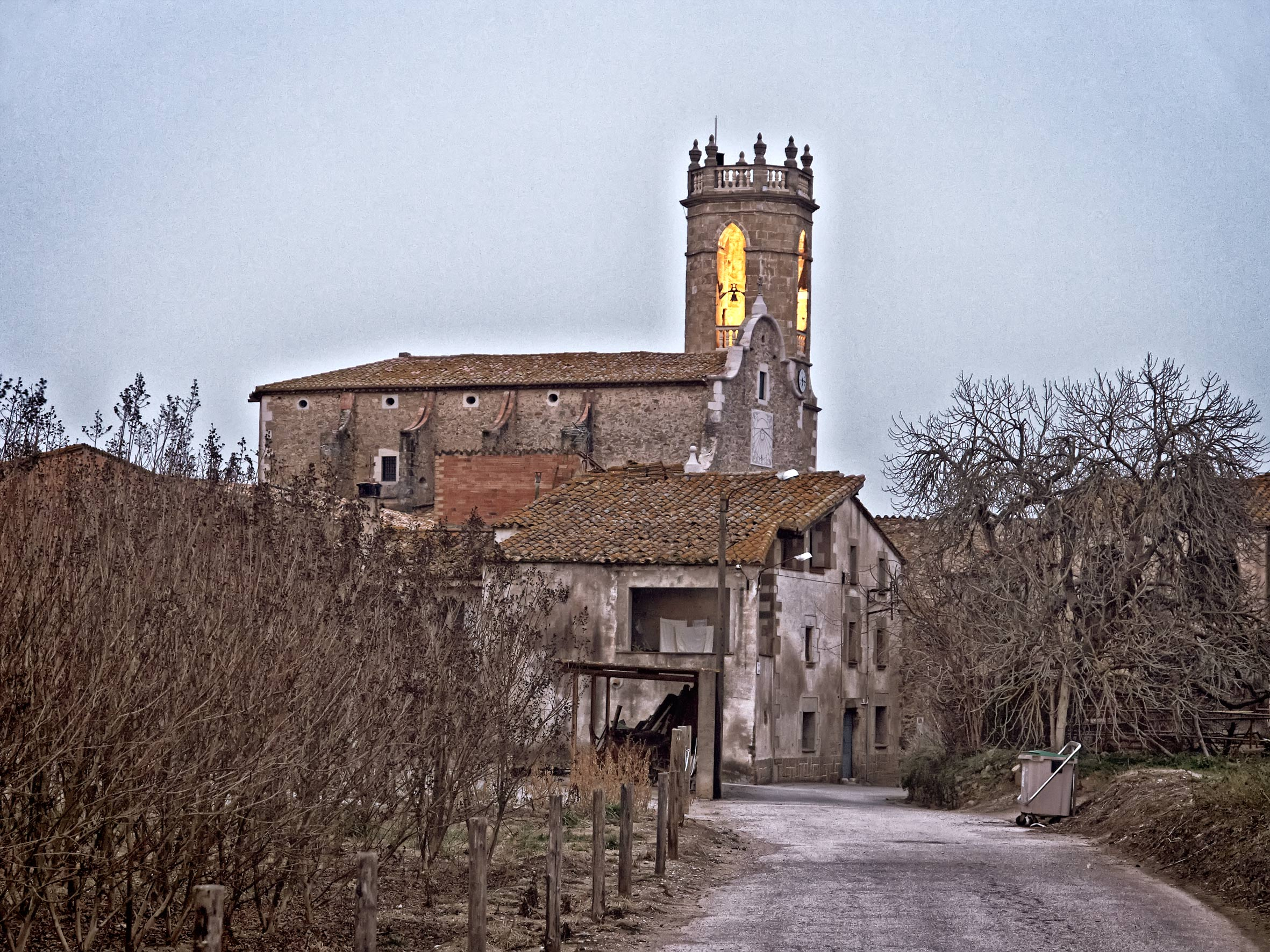 Flaçà landscape (Catalonia, Spain)